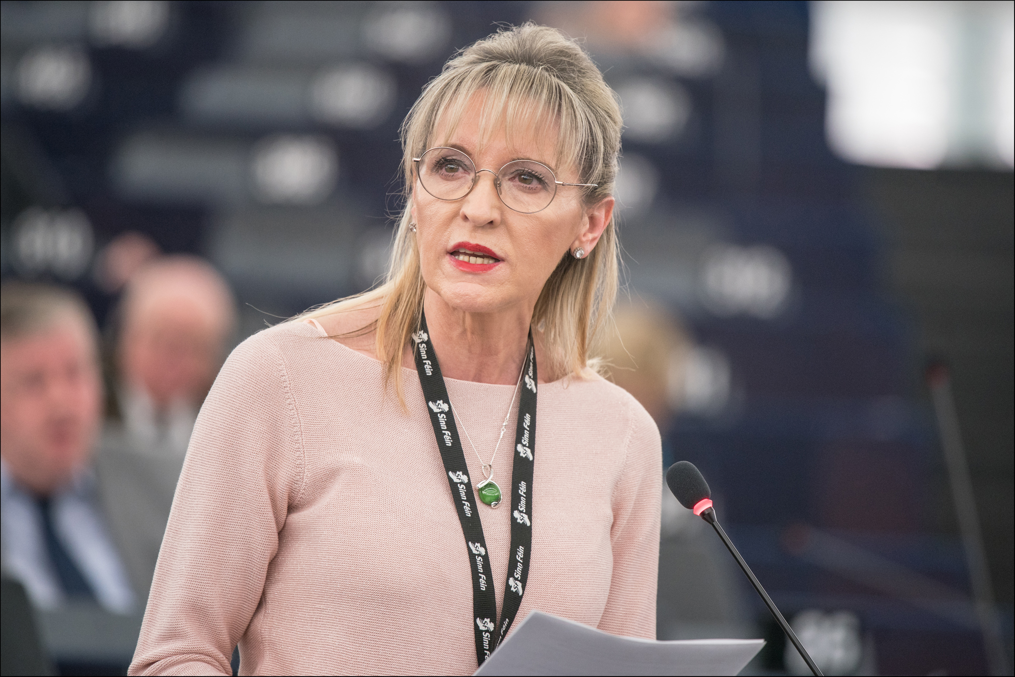 Following the UK parliament's rejection of the Brexit deal in a vote last evening, members of the European Parliament have underlined that the EU will remain united and that citizens’ rights are Europe's priority. Speaking in a debate in Parliament today, Commission Vice-President Frans Timmermans said commitments on the peace process and the border in Ireland or on citizens’ rights cannot be watered down. Parliament's lead member on Brexit @guyverhofstadt called on UK politicians to build a positive majority to break the Brexit deadlock. READ MORE ►► This photo is free to use under Creative Commons license CC-BY-4.0 and must be credited: "CC-BY-4.0: © European Union 20XY – Source: EP". No model release form if applicable. For bigger HR files please contact: webcom-flickr(AT)